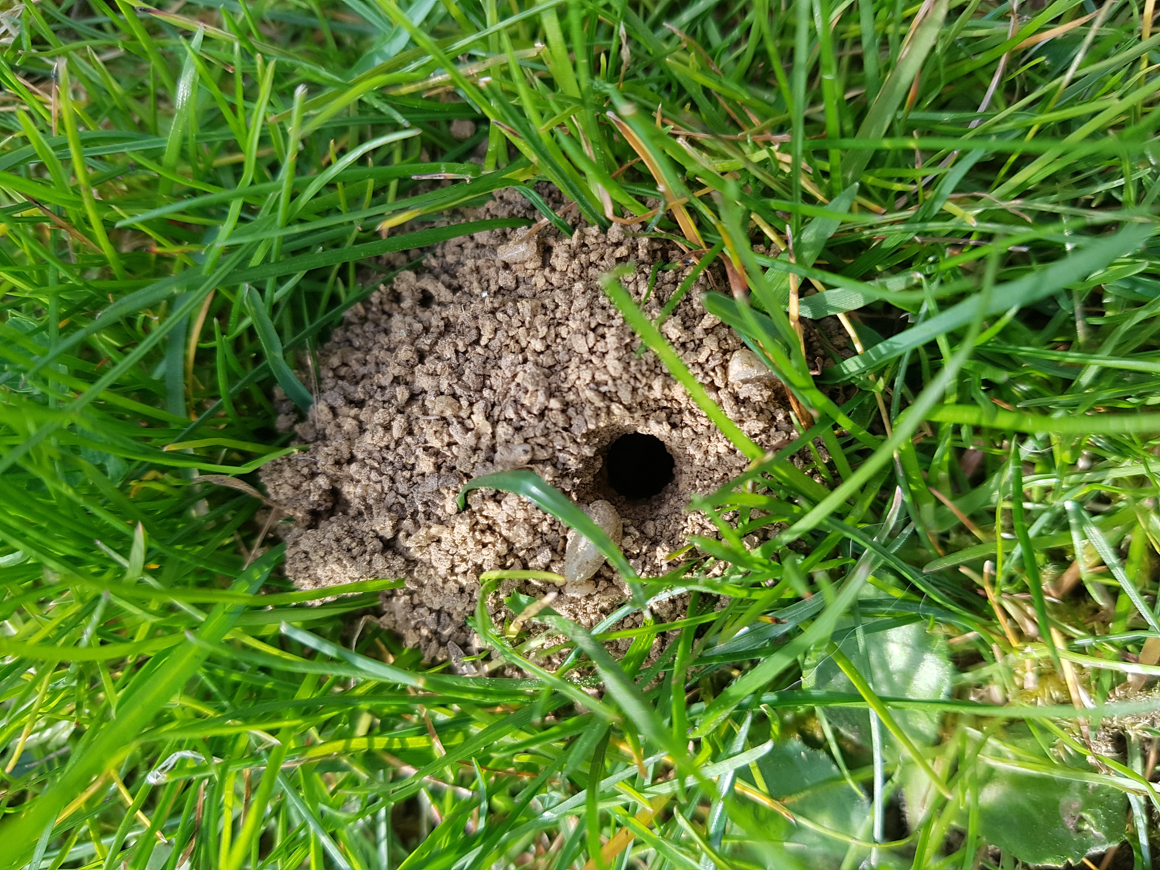 The construction of a Lasioglossum female can be recognized by the aboveground small chimneys, similar to small volcanoes. These small hills are from a few millimeters to centimeters high